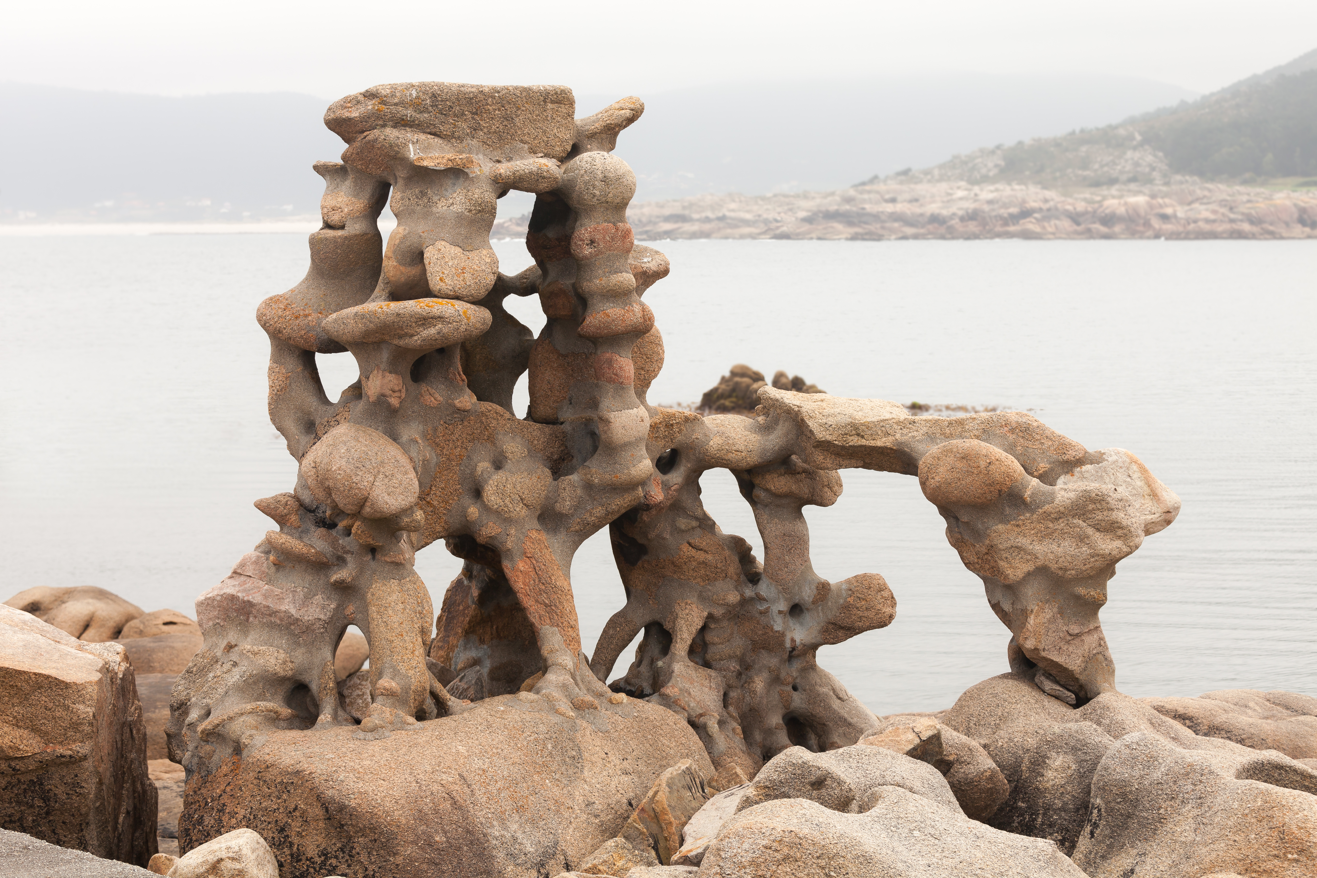 Sculpture by Man (Manfred Gnädinger), Camelle, Camariñas, Galicia (Spain).